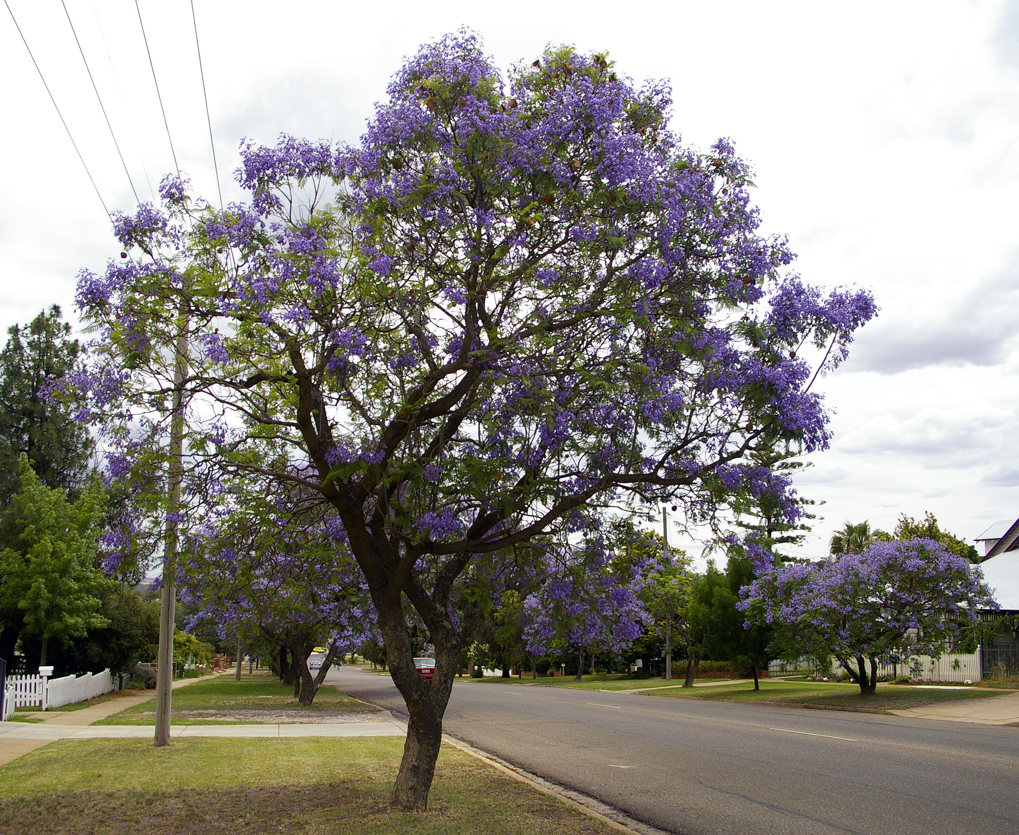 Jacaranda mimosifolia in flower along Michelmore Street in Turvey Park, New South Wales, Australia.